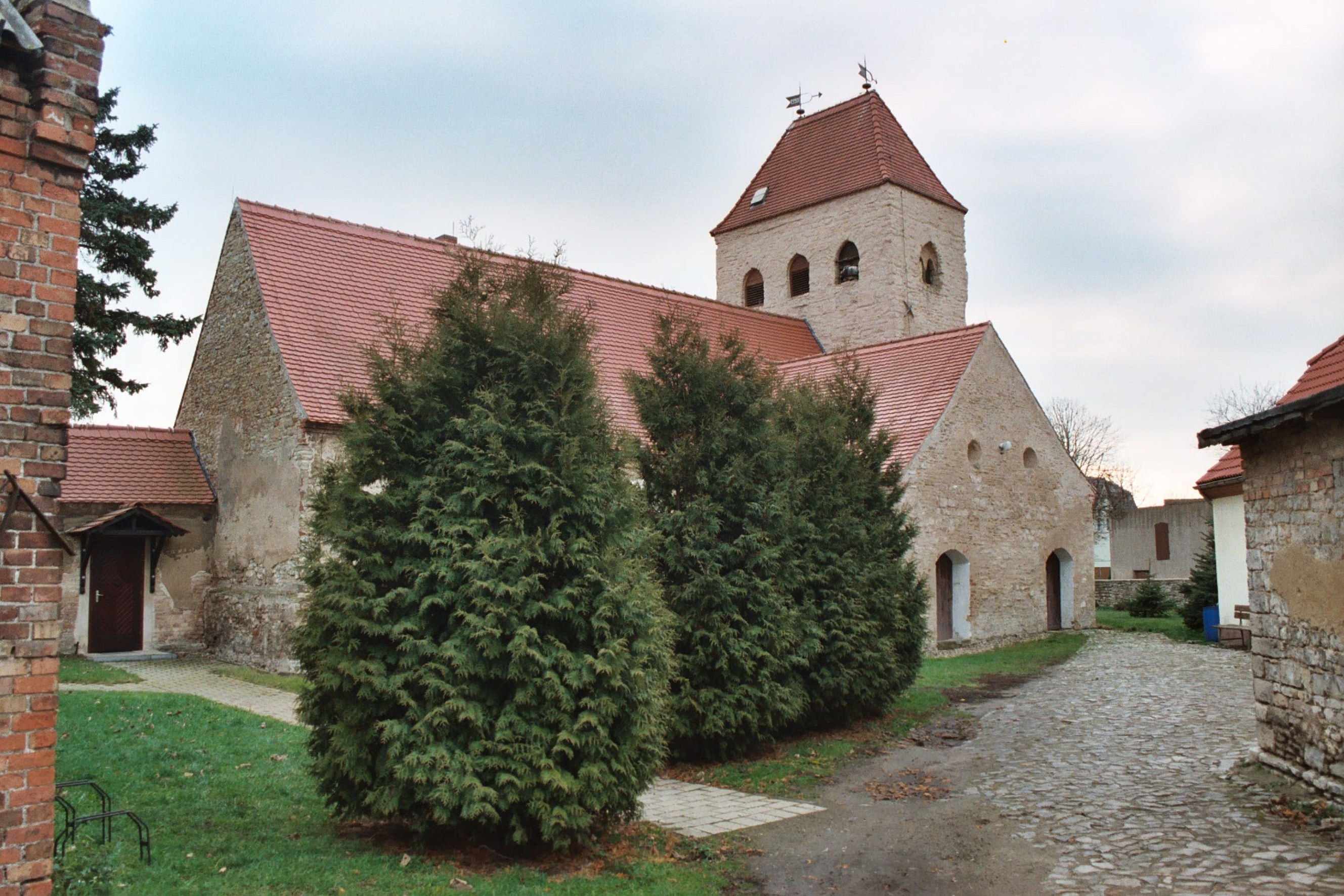 Üllnitz (Staßfurt), the village church